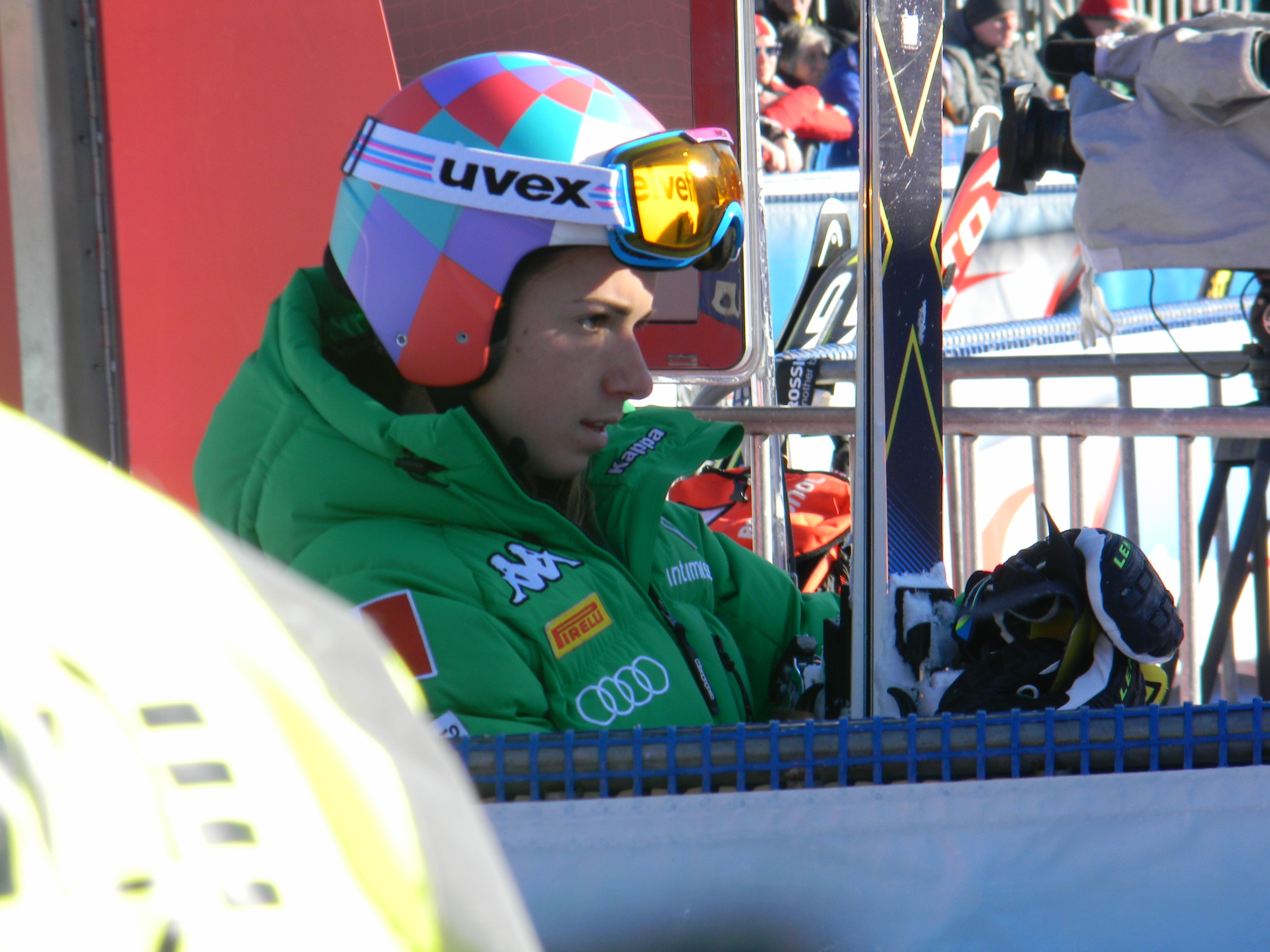 Marta Bassino of Italy after the Audi FIS Alpine Ski World Cup Women's Giant Slalom on December 28, 2015 in Lienz, Austria